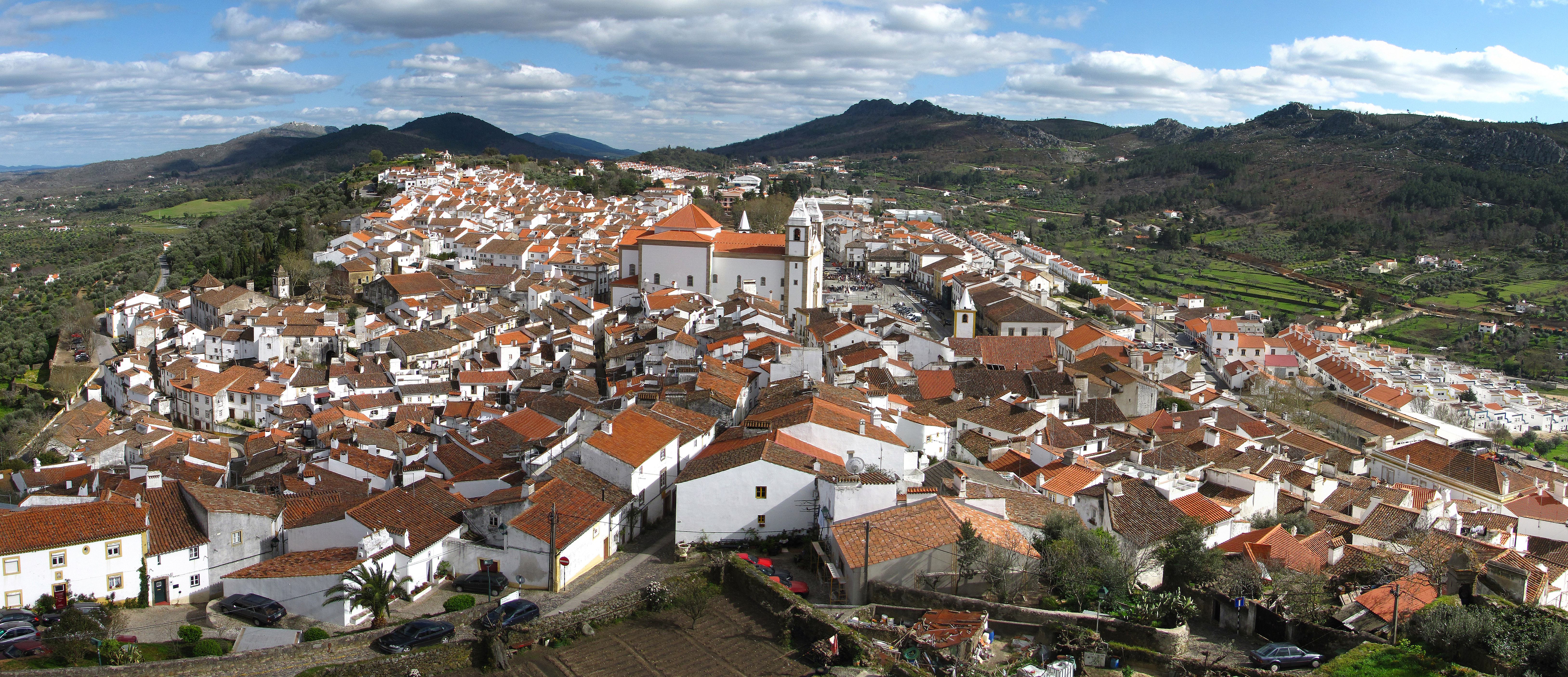 Panoramic view of Castelo de Vide (Portugal)